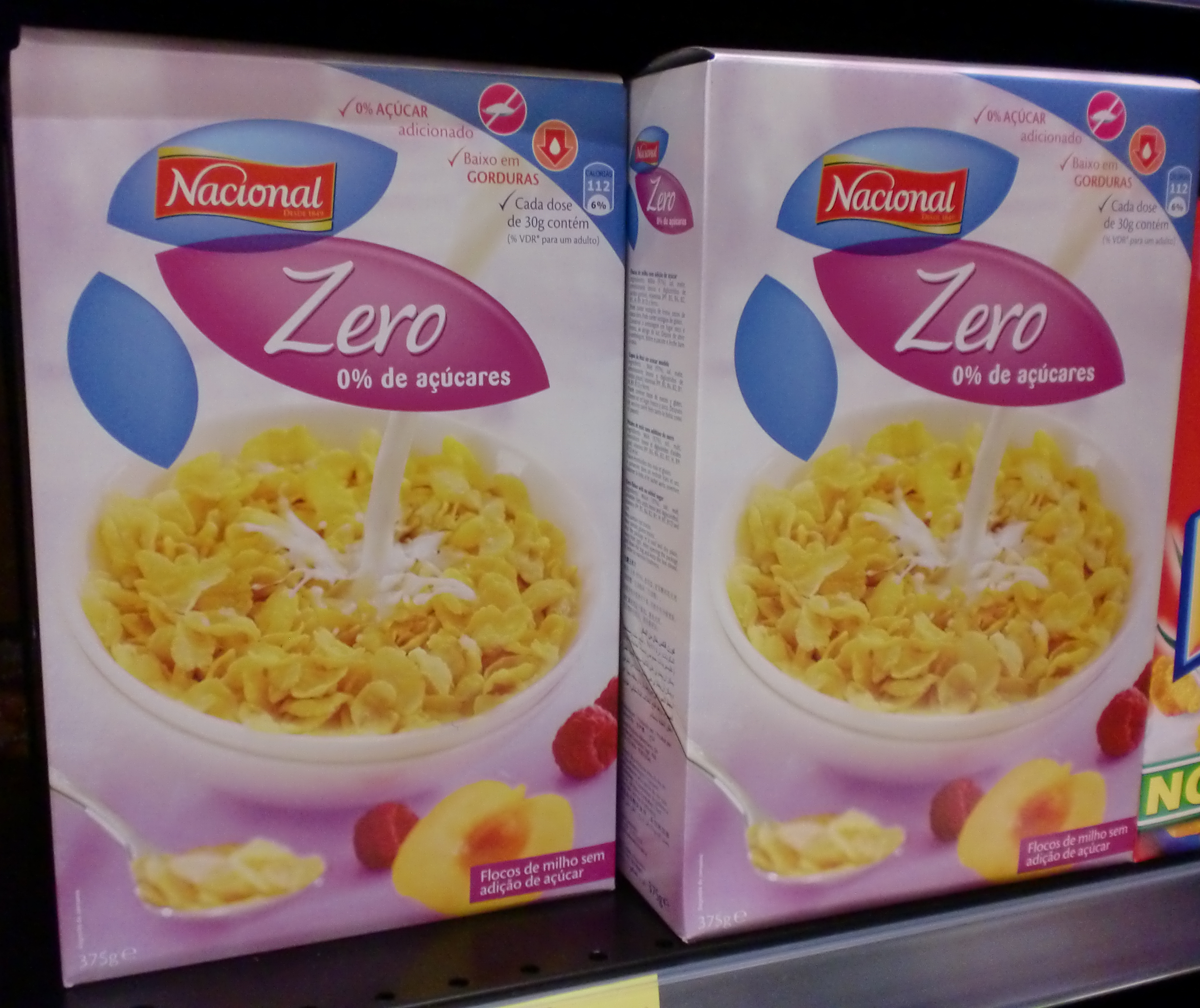 Nacional brand cereals (Cerealis group). Photo taken at a Pingo Doce supermarket, in Coimbra.